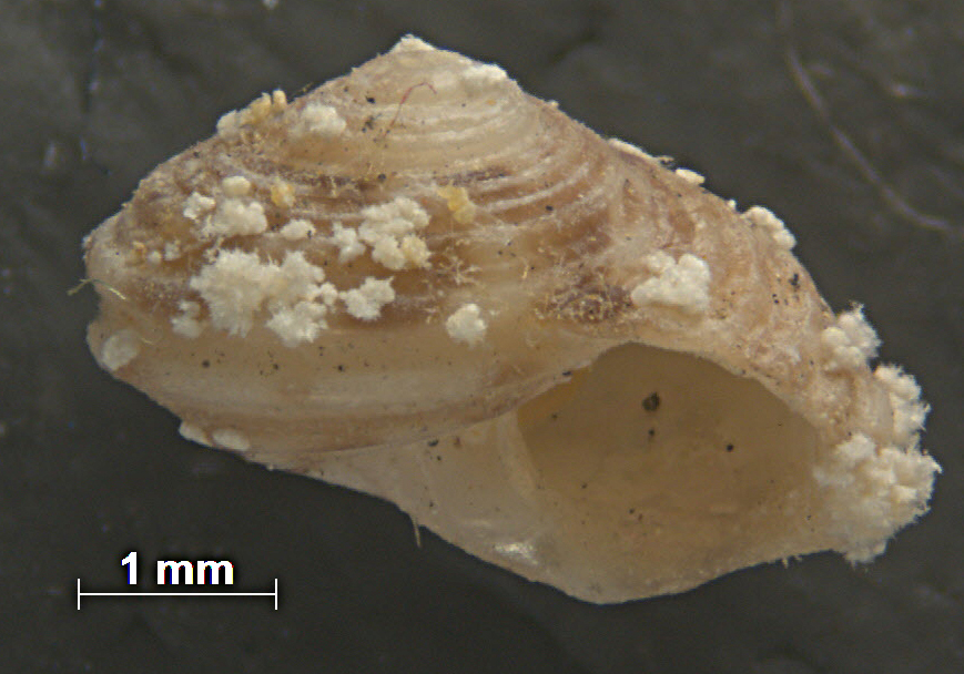 Effects of Bynesian decay on a gastropod (Tegula sp.) shell. Several efflorescence clusters can be observed on the shell's surface.